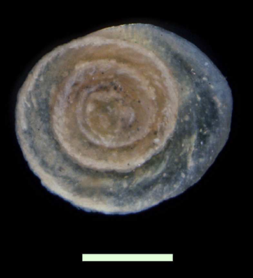 Photo of outer surface of the operculum of a juvenile individual of Chrysomallon squamiferum. The scale bar is 1 mm.